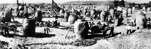 Backyard furnaces in Xinyang county, Henan, during the Great Leap Forward era.